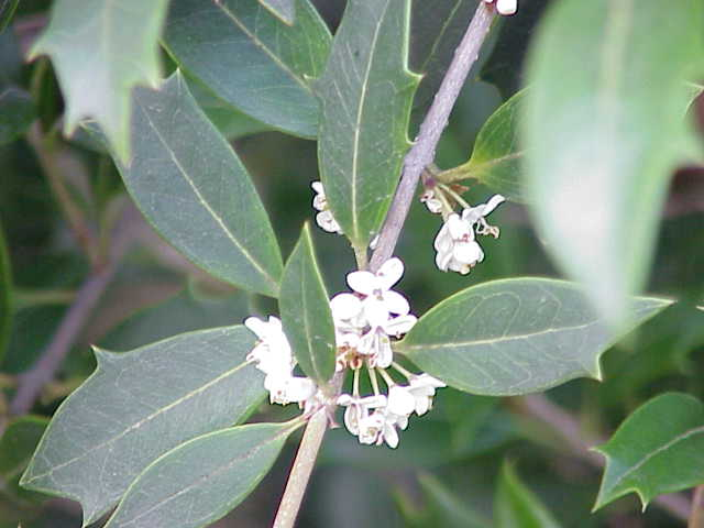 Species: Osmanthus heterophyllus Family: Oleaceae Image No. 3